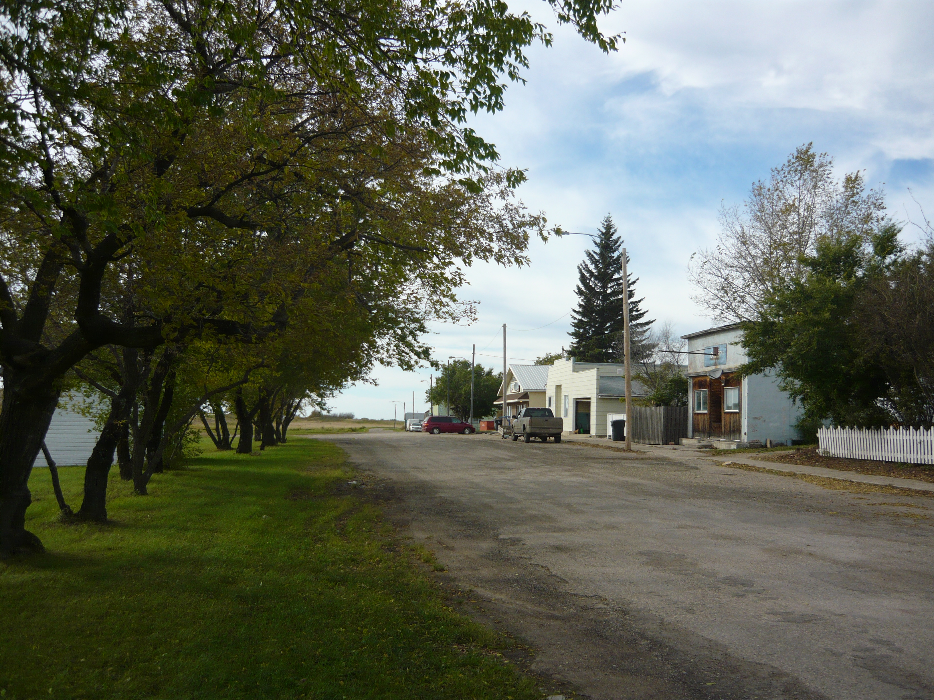 Railway Avenue (looking westward), Prud'homme, Saskatchewan, Canada.